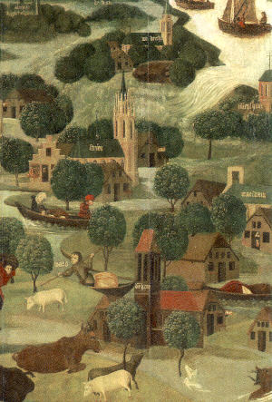 The St Elizabeth’s Day Flood, 18-19 November 1421 [detail outer right wing].